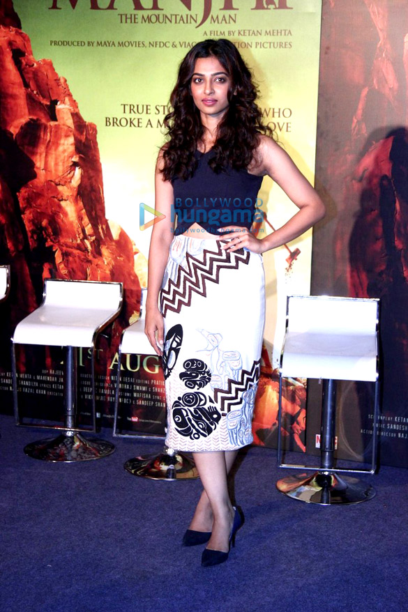 Radhika Apte at the first look launch of Manjhi The Mountain Man